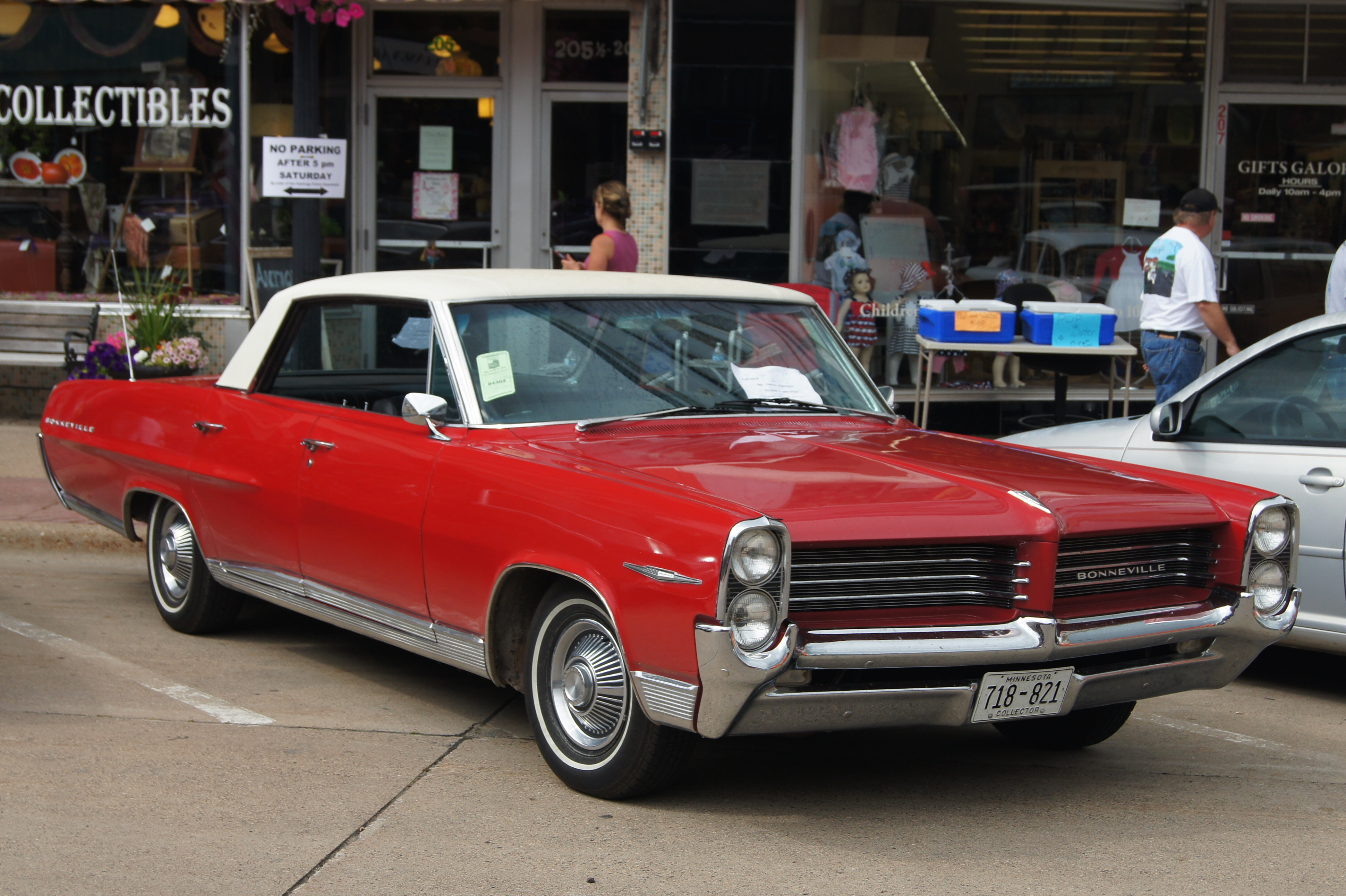 HISTORIC DOWNTOWN HASTINGS CRUISE-IN & CLASSIC CAR SHOW July 11, 2015 Click here for more car pictures at my Flickr site.